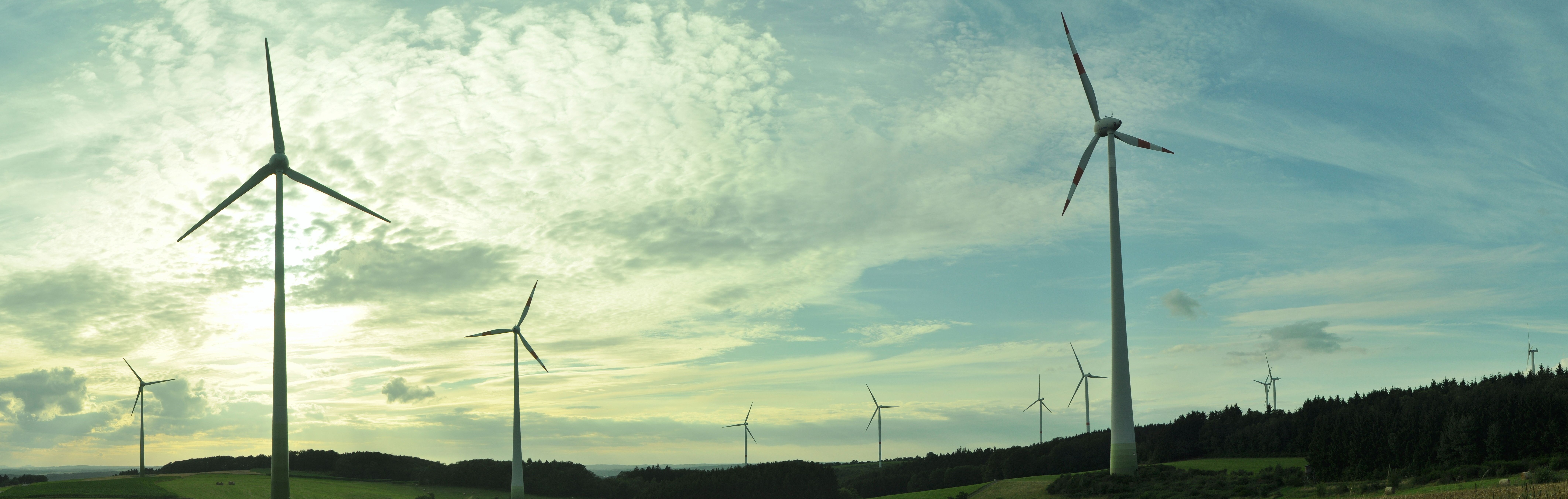 The entire wind farm near Gebhardshain and Fensdorf. Seven Nordex N90, in the right side of the image more in the background, two Enercon E66, the two in the middle with the red-white rotor-blades and the new wind turbines in the left side - two Enercon E53.